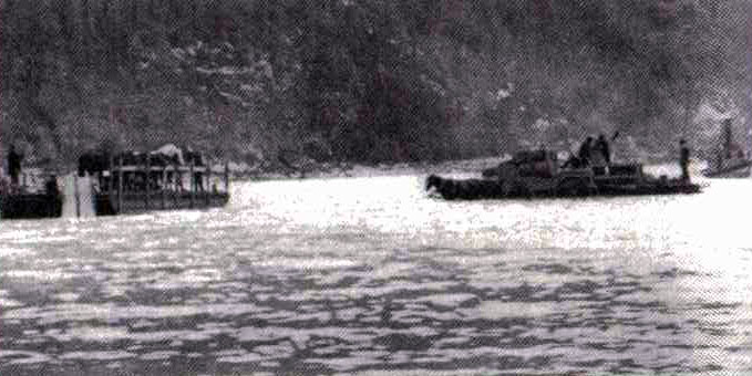 Landing at Skagway